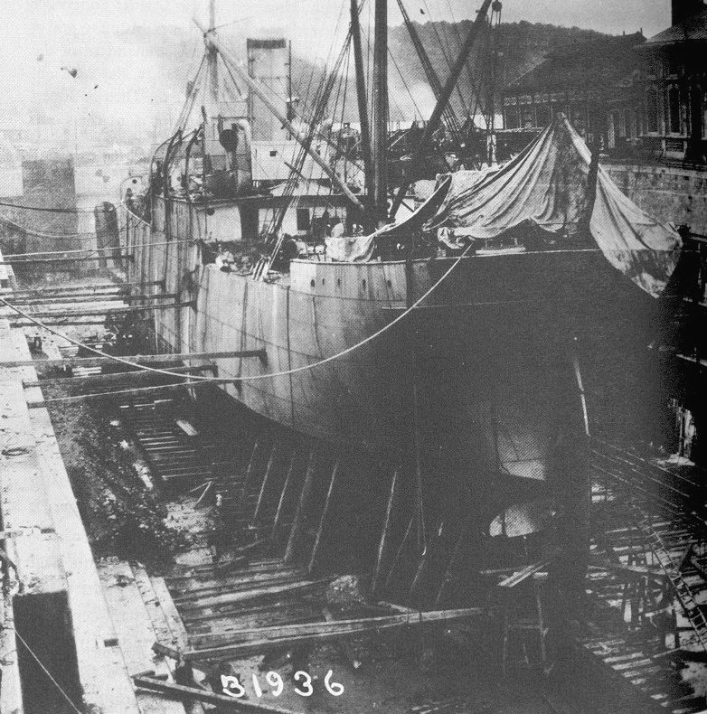 Hohenfelde prior to conversion to Long Beach (SP-2136).